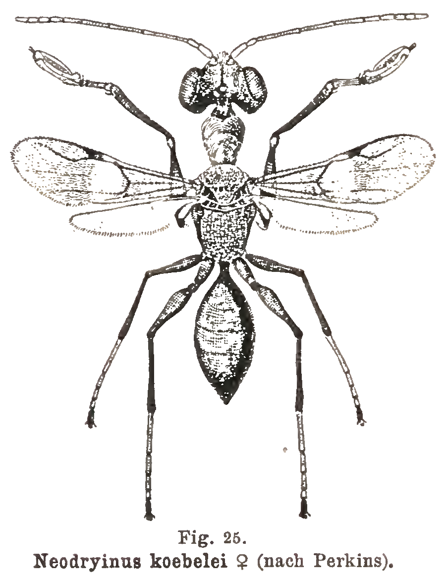 Neodryinus_koebelei_female